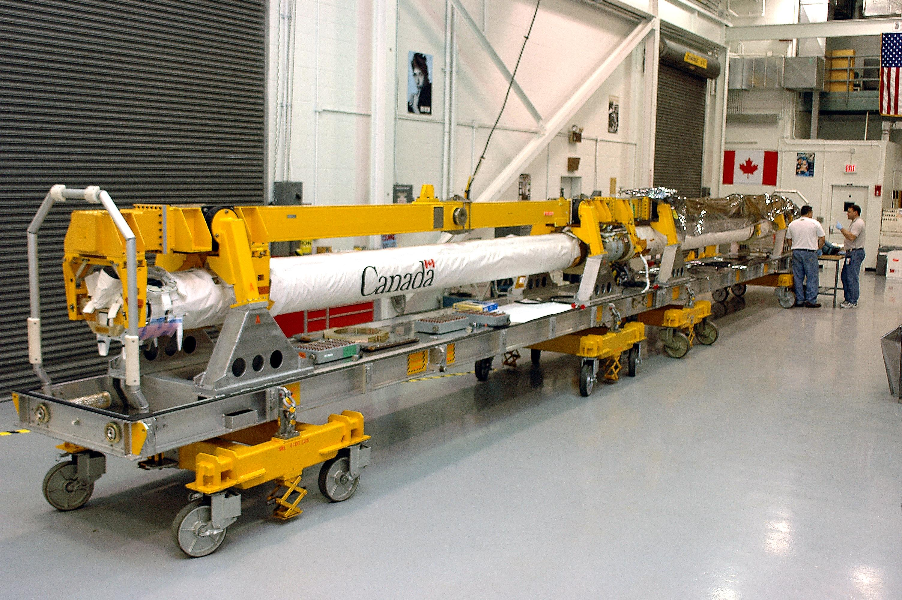 KENNEDY SPACE CENTER, FLA. – In the Remote Manipulator System lab, United Space Alliance technicians Jake Senior and Todd Dugan work on the Orbiter Boom Sensor System. The OBSS is undergoing final checkout and testing in the lab prior to installation on Space Shuttle Discovery. The 50-foot-long OBSS will be attached to the Remote Manipulator System, or Shuttle arm, and is one of the new safety measures for Return to Flight, equipping the orbiter with cameras and laser systems to inspect the Shuttle's Thermal Protection System while in space.